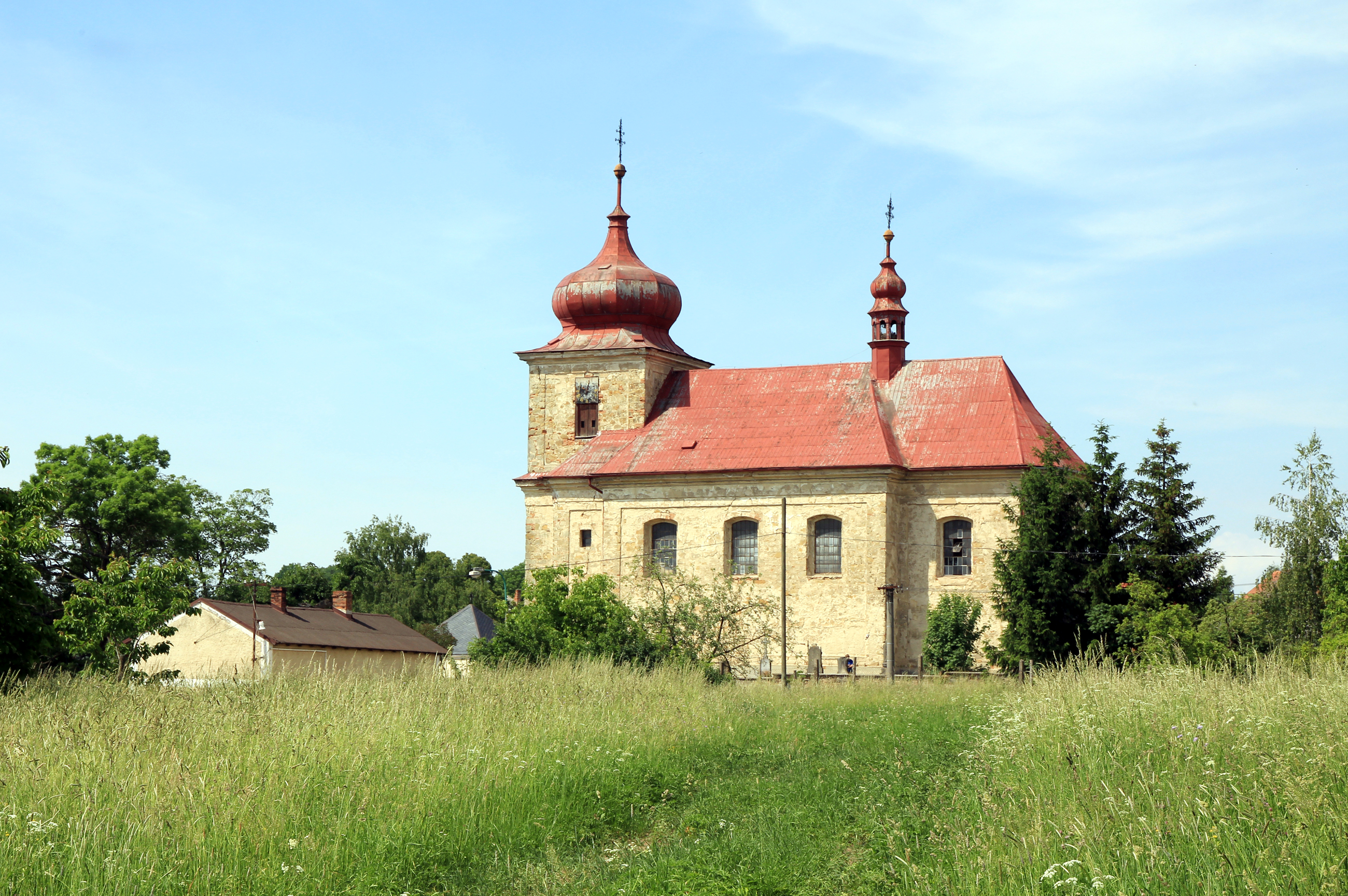 The Church of Saint Giles in the village Markvartice in Czech Republic,2017